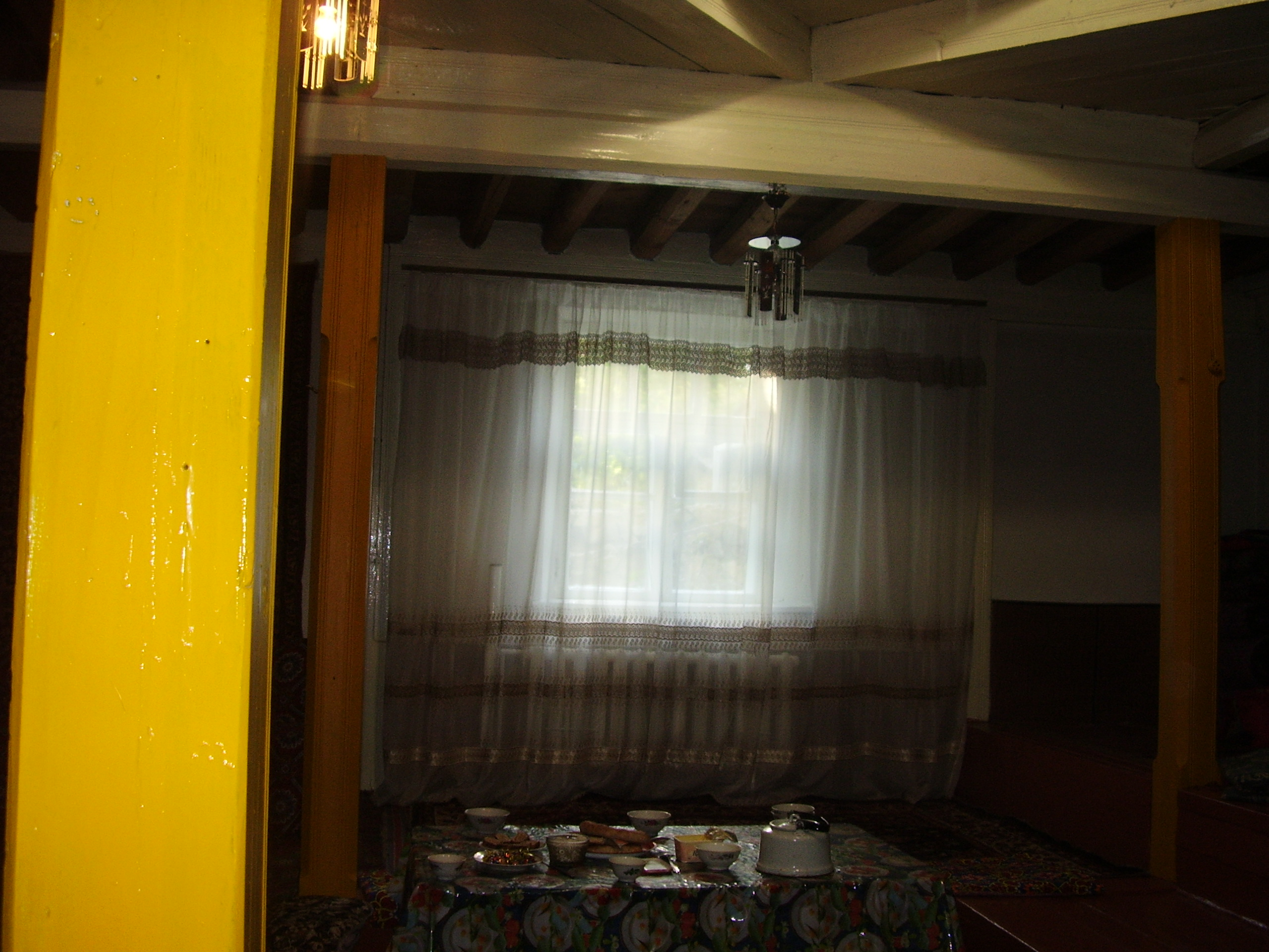 Traditional Pamiri room/house each corder of which has its duty. In this large room every members of family pray. This room has usually four columns.